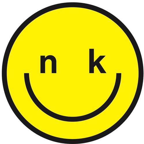 Logo used by Russian DJ Nina Kraviz